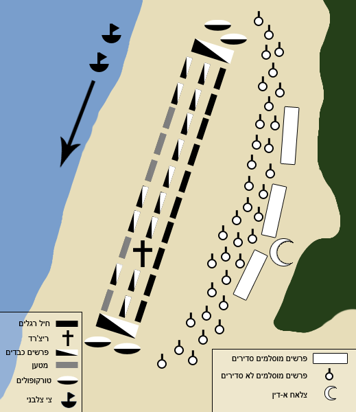 A map of Battle of Arsuf